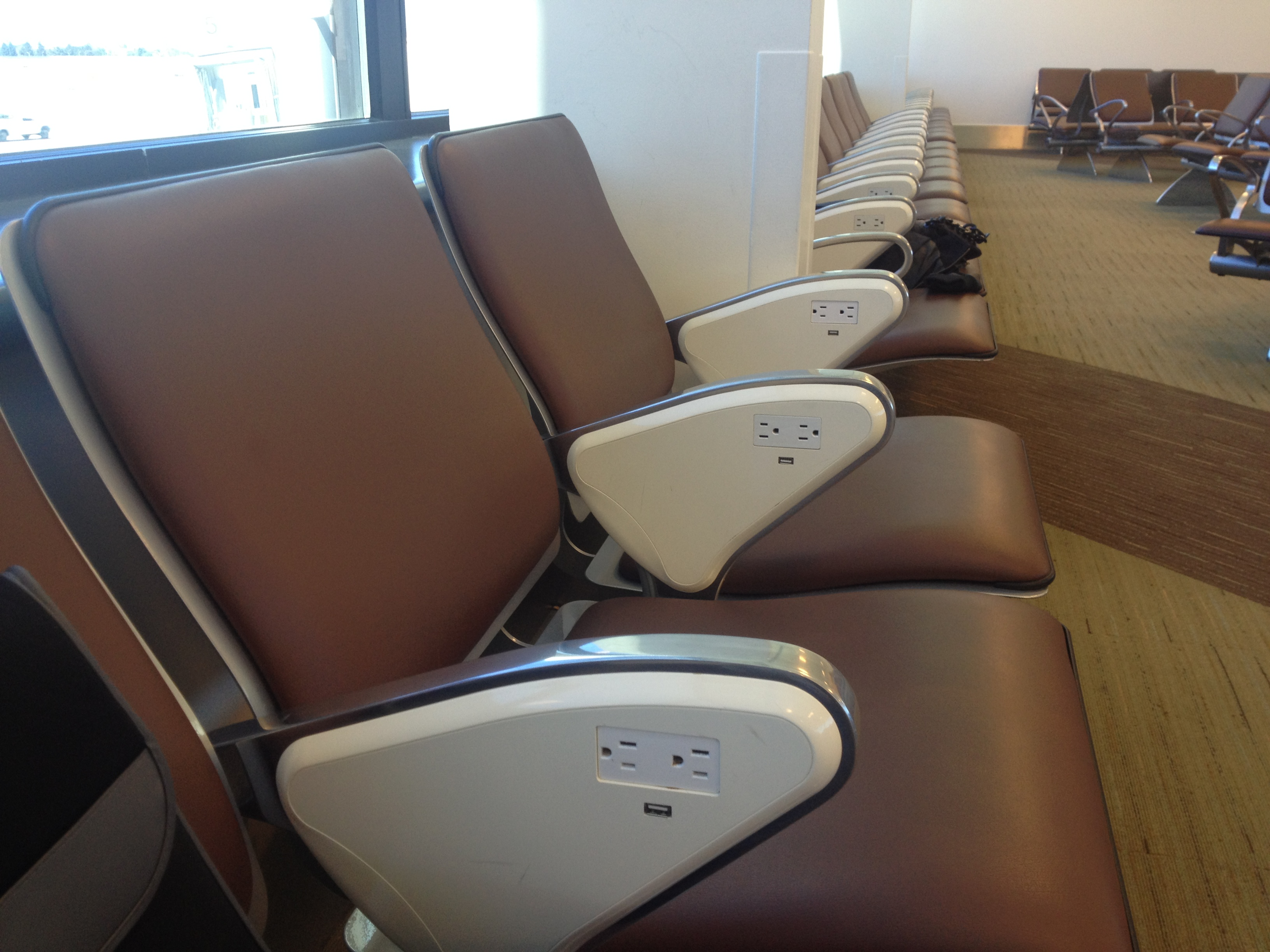 Airport seats in Norman Y. Mineta San José International Airport Terminals, that have sockets in each armrest.